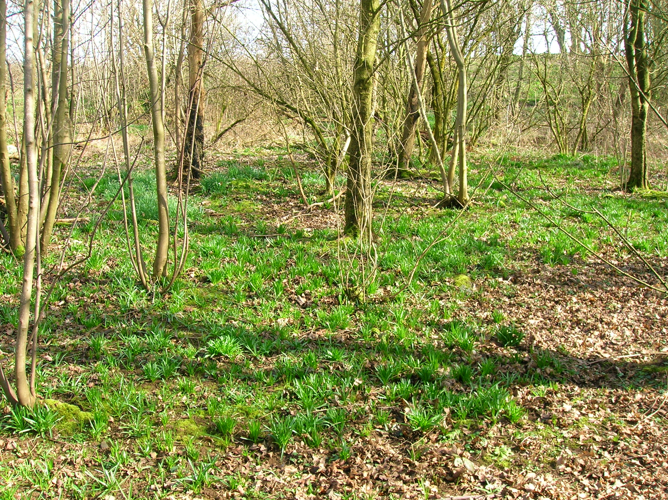 The Higgins Plantation at Higgins House, North Ayrshire, Scotland